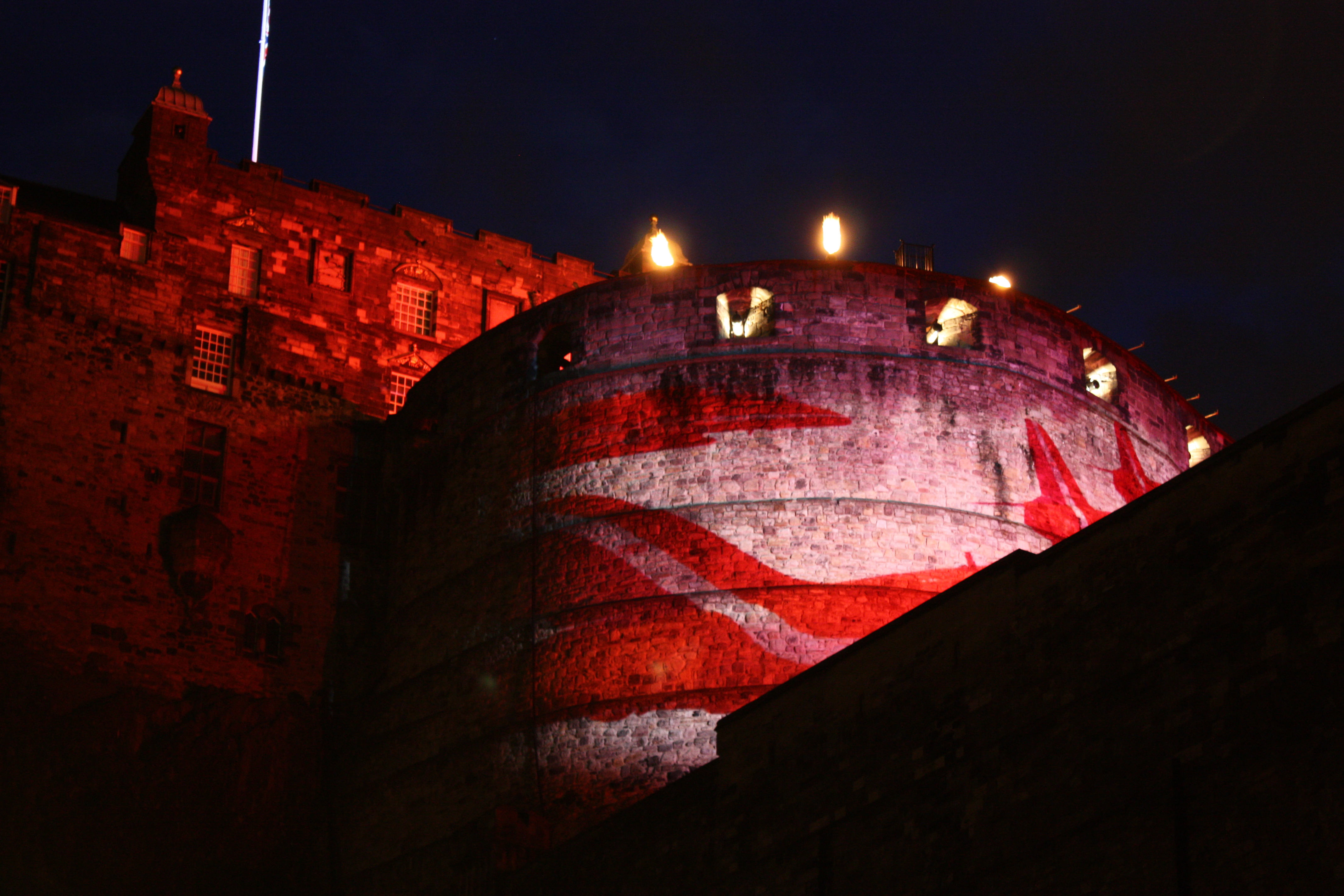 Edinburgh Castle Lightshow during Edinburgh Festival in 2009 (Military Tatoo)